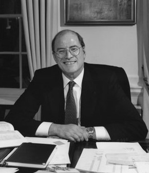 The Right Honourable Anthony Stephen Grabiner, Baron Grabiner, Queen's Counsel